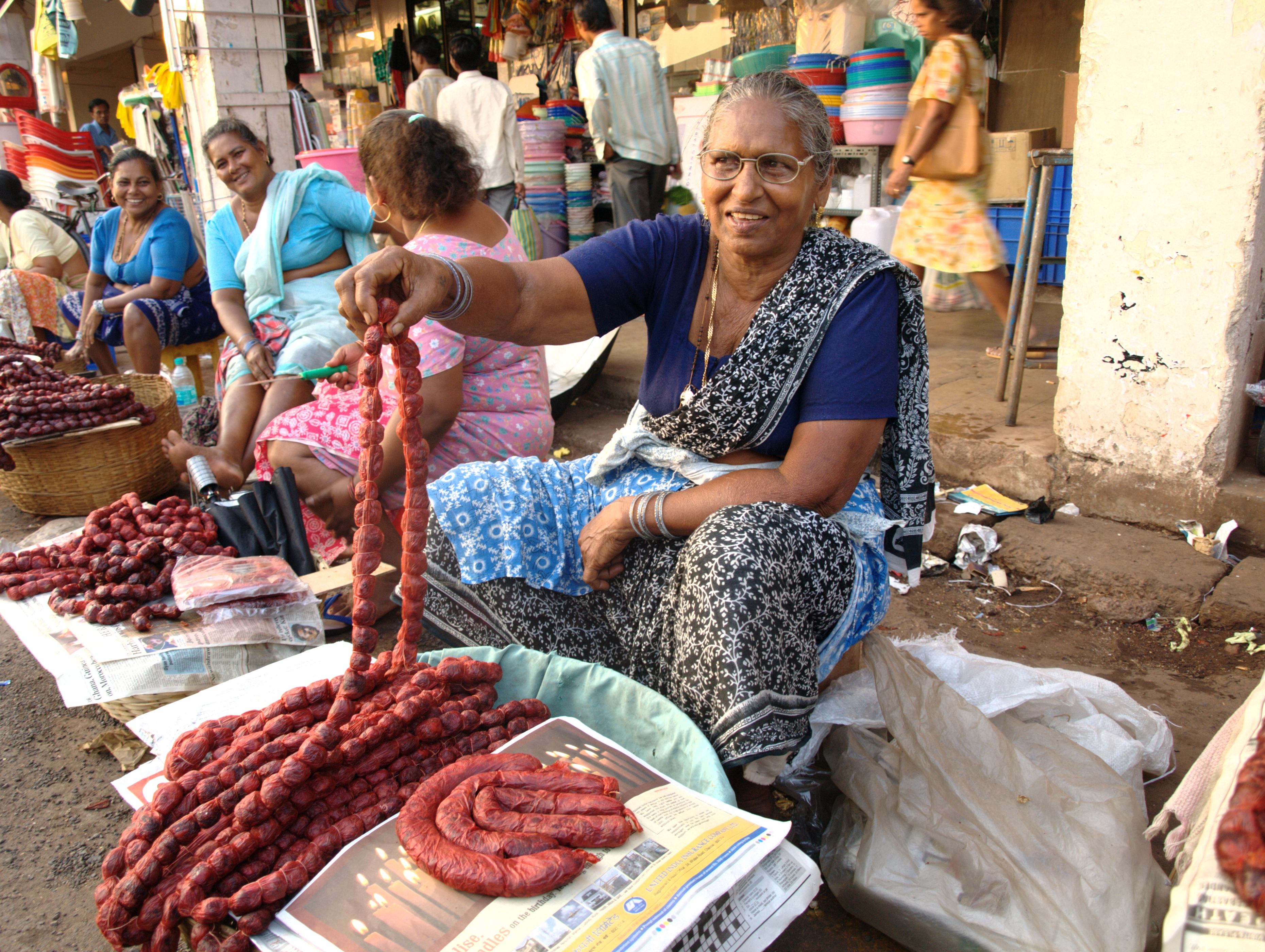 Woman vendor. Goan sausages being sold at the Mapusa market, Goa, India.